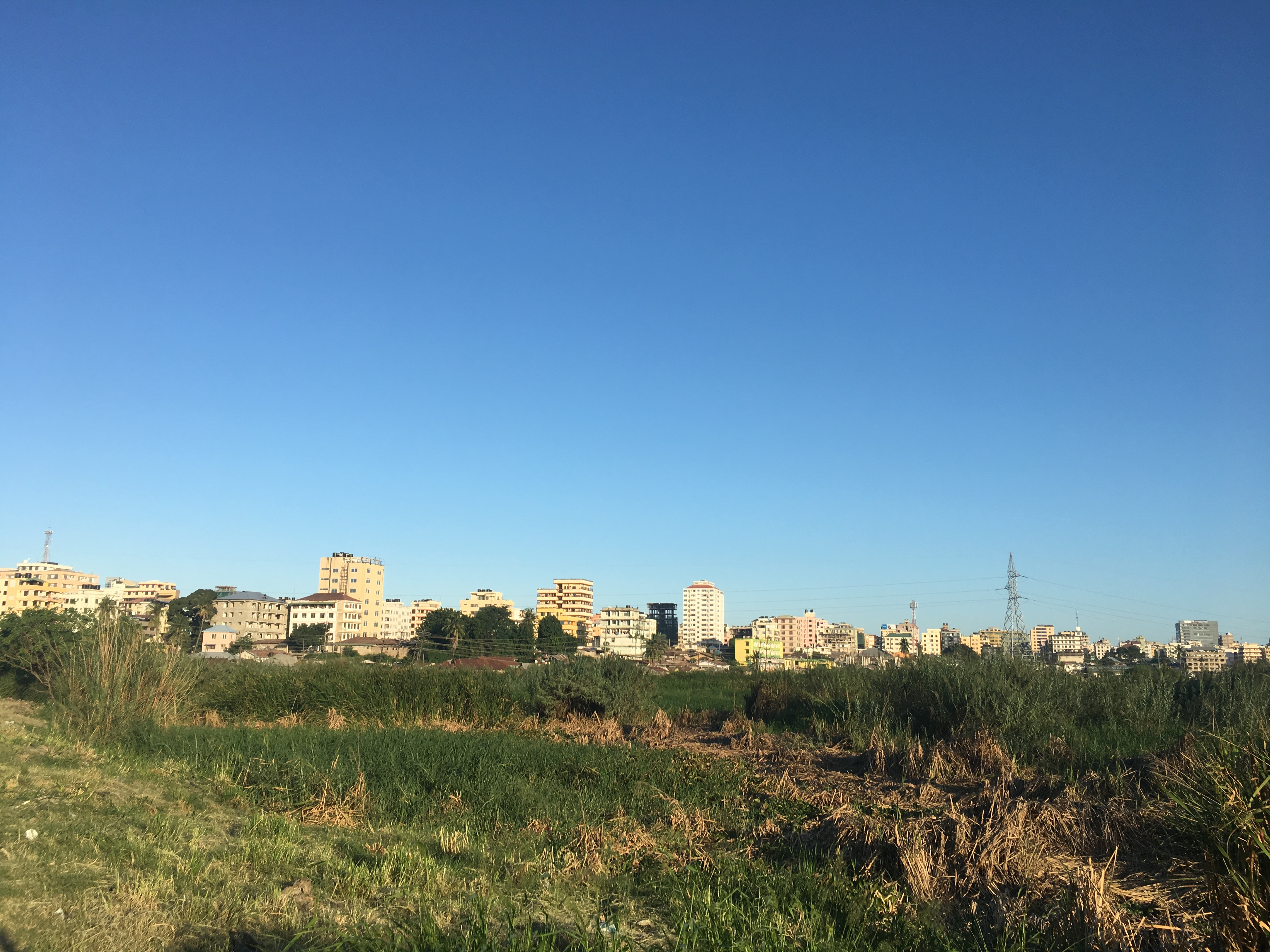 Jangwani as seen from across the Jangwani Playing Fields near the Jangwani Rapid station